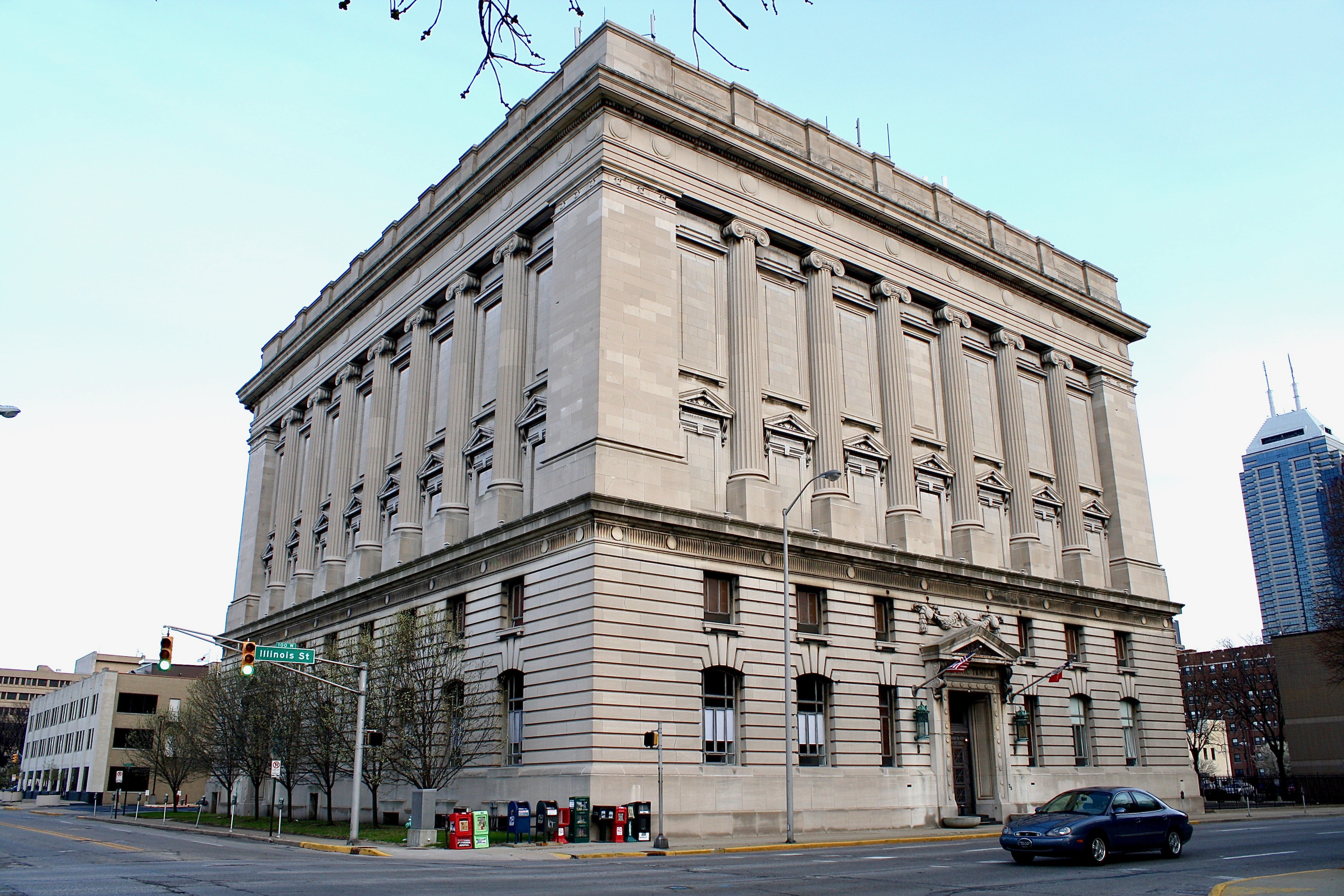 The Indianapolis Masonic Temple at Illinois and North Streets is the statewide headquarters of the Grand Lodge of Free and Accepted Masons of Indiana.